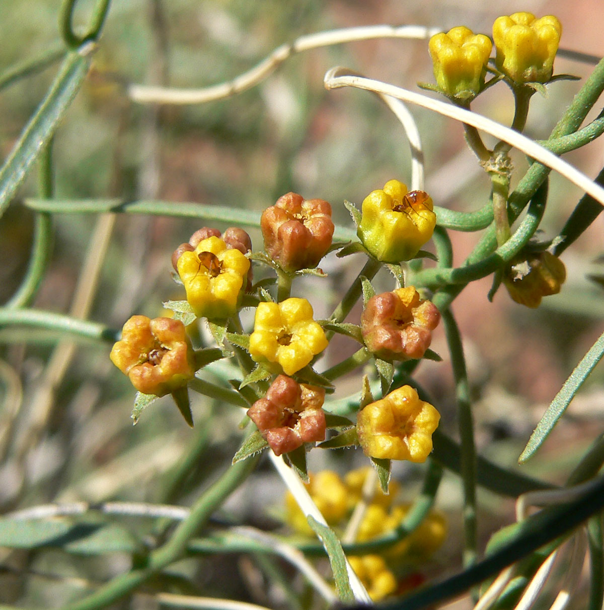 Cynanchum utahense in wash alongside the Calico Basin road near its junction with route 159, Red Rock Canyon, Spring Mountains, southern Nevada (elev. about 1100 m); note ant abdomens protruding from two of the flowers